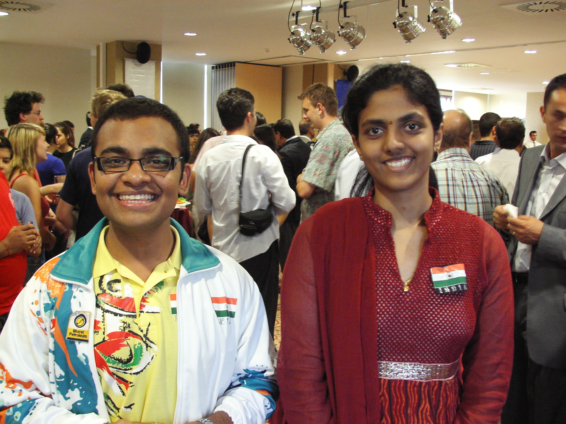 World Junior Chess Champions 2008, GM Abhijeet Gupta India and WGM Harika Dronavalli India. Gaziantep, Turkey.